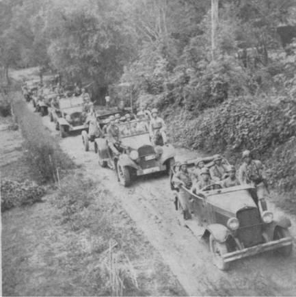 A group of Benz cars towing PaK 37mm (difficult to see) along a mountain road in China.